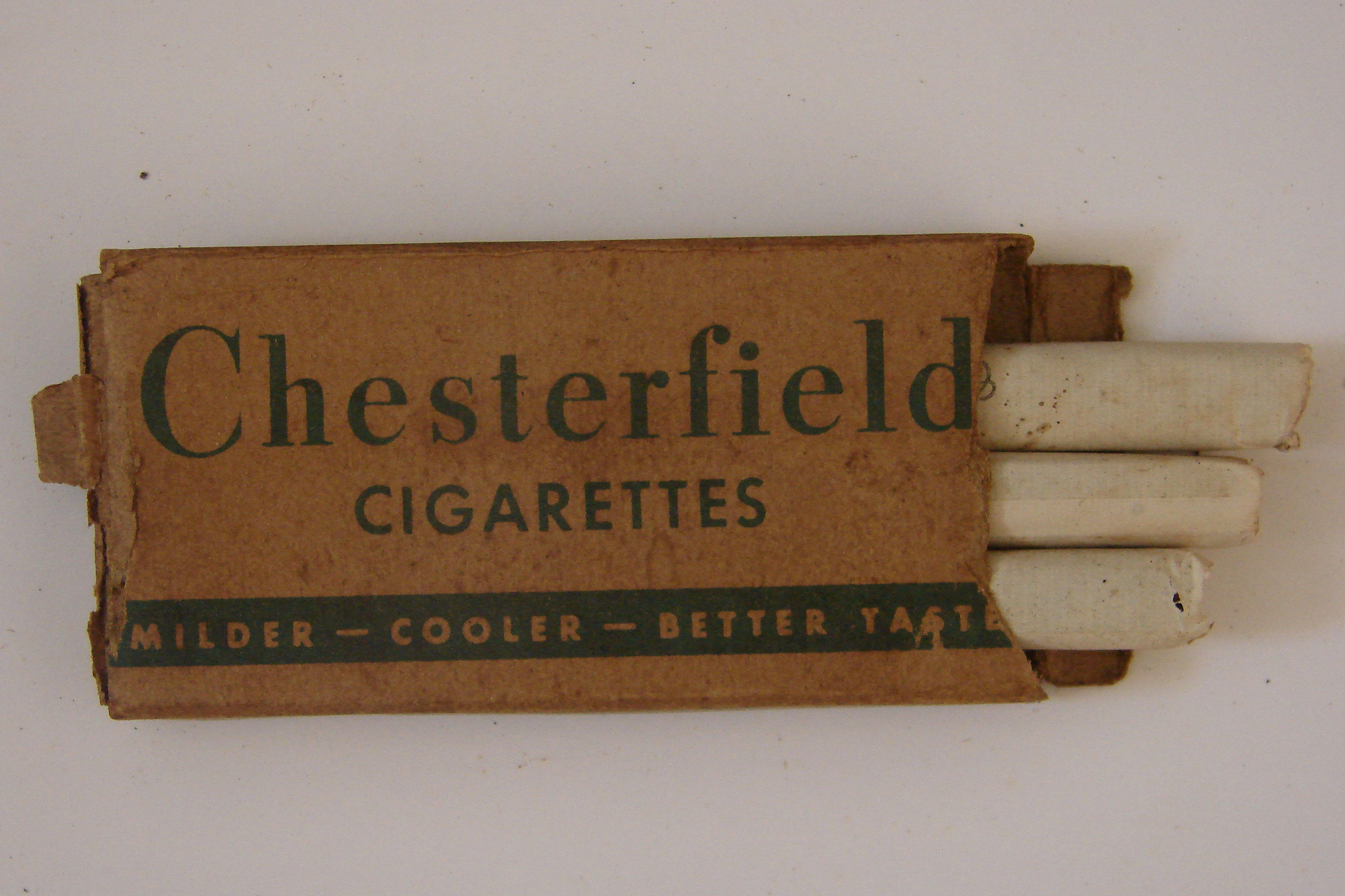 A pack of Chesterfield cigarettes, from the World War II